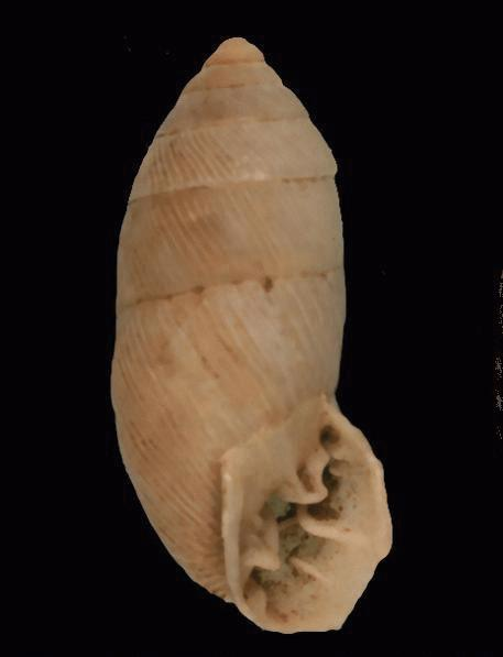 ZooKeys - Plagiodontes brackebuschii Cut-out from original (Plagiodontes and Spixia species in mollusc collection in Museum für Naturkunde Berlin - ZooKeys-279-001-g032.jpg) shown below